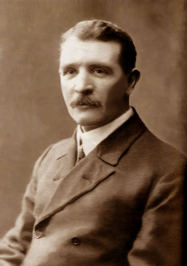 William Murdoch in his 30s